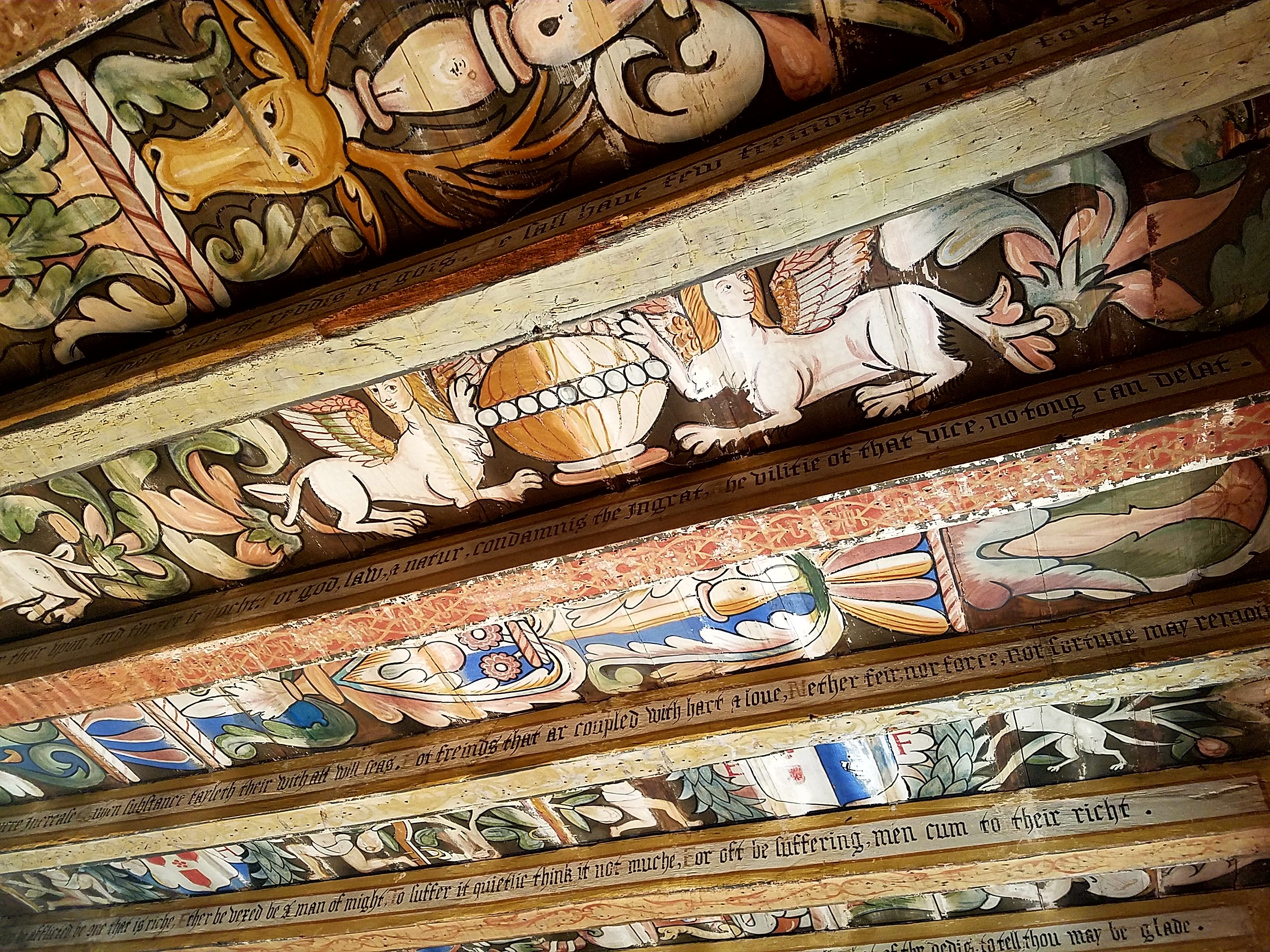 Painted ceiling in Delgatie Castle, Aberdeenshire, Scotland.